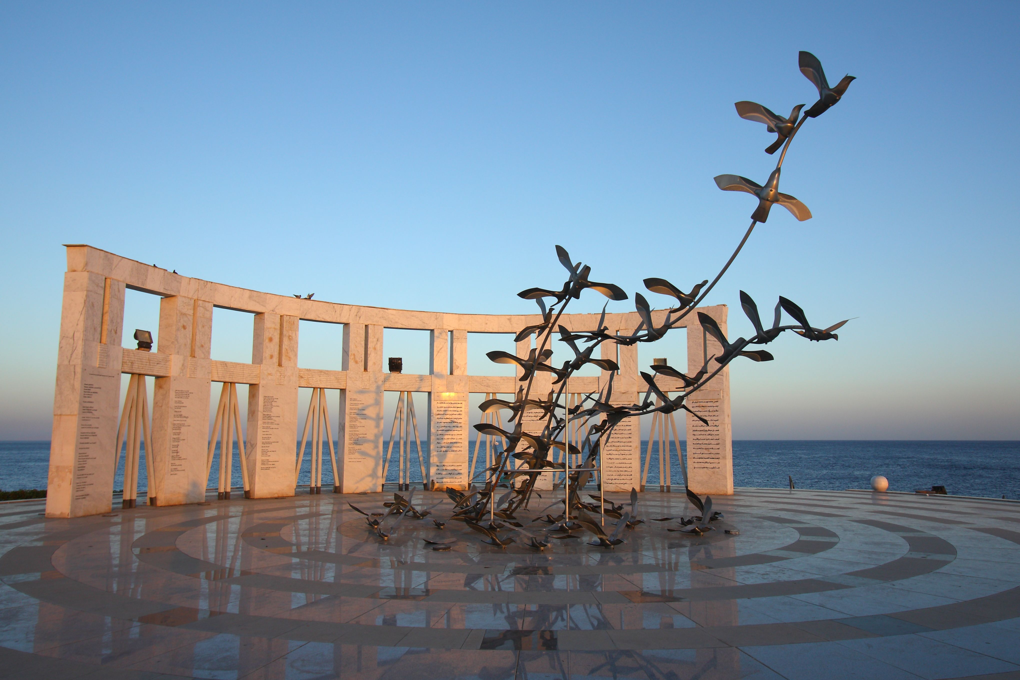 Monument to the victims of the Gulf of Aqaba plane crash of 3 January 2004. Egypt, Sharm-El-Sheikh